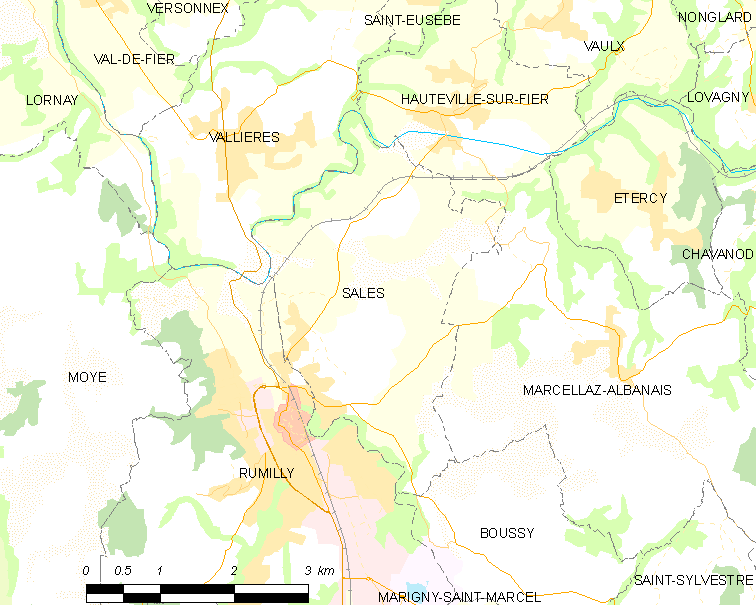 Map of French municipality Sales